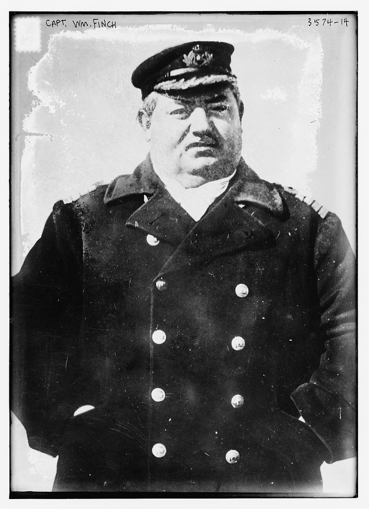 Csptain William Finch of the SS Arabic Capt. Wm. Finch (LOC) Bain News Service,, publisher. Capt. Wm. Finch